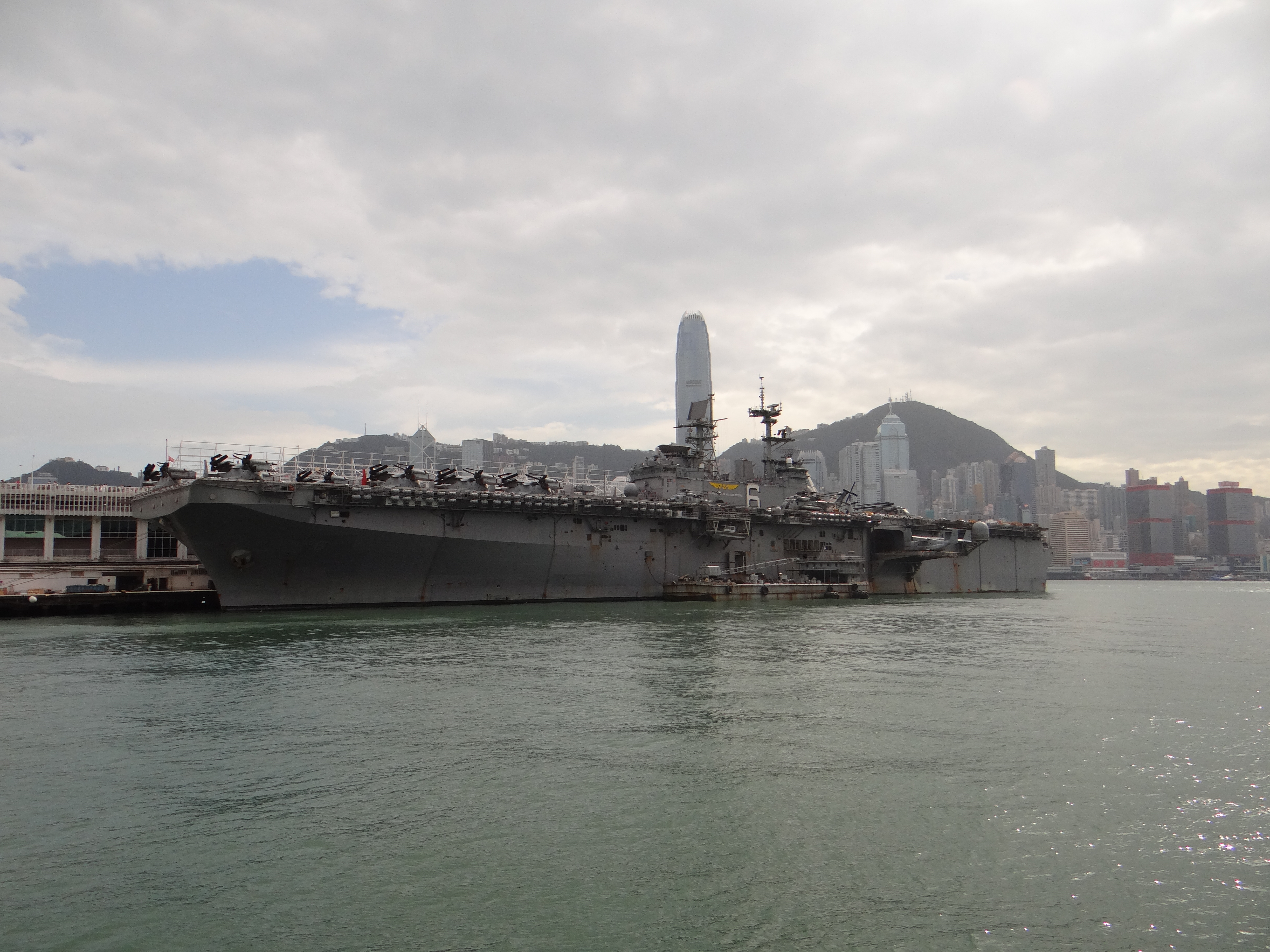 USS Bonhomme Richard (LHD-6) moored at Ocean Terminal (海運大廈) during a visit to Hong Kong. Photo taken on September 19th, 2013. Bonhomme Richard arrived at Hong Kong on September 18th for a scheduled 5 days visit. During the visit, Bonhomme Richard sailors and Marines has involved in various community service projects. The port visit was shorten due to Super Typhoon Usagi(超強颱風天兔), and Bonhomme Richard departed Hong Kong on the 21st.